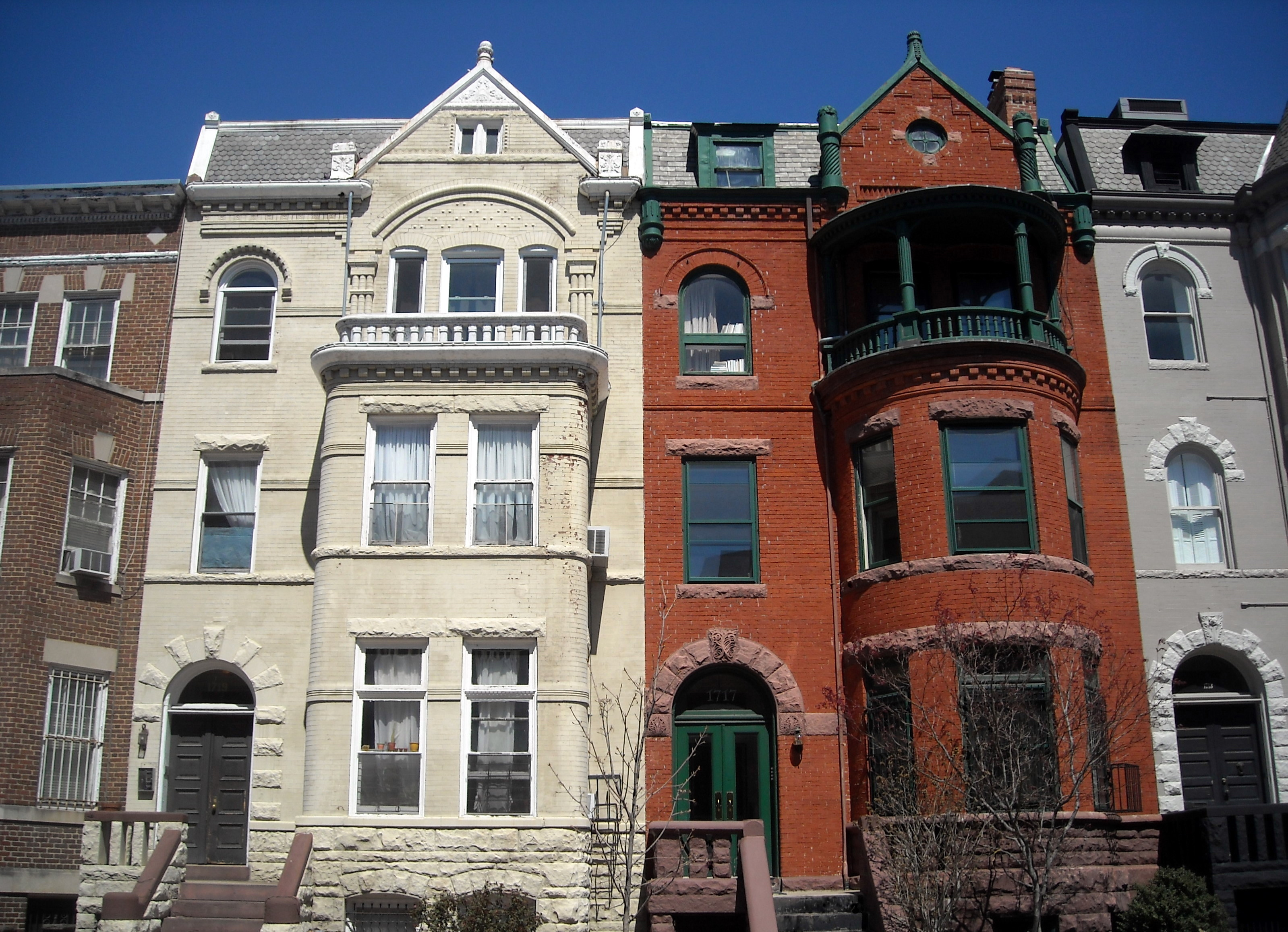 Row houses located at 1717 and 1719 S Street, N.W., in the Dupont Circle neighborhood of Washington, D.C. The buildings are designated as contributing properties to the Dupont Circle Historic District, listed on the National Register of Historic Places in 1978. 1717 S Street, N.W. (right) – Built in 1892 for businessman John C. Fedrick, the Romanesque Revival-style home has also served as the residence of chemist Ivan S. Hocker, professor William Raymond Moody, John C. Black, Colonel Champe Carter McCulloch, chapter house for Phi Sigma Kappa, chapter house for Theta Upsilon Omega, and headquarters for the Institute for Local Self-Reliance. 1719 S Street, N.W. (left) – Built in 1892 for professor Robert Hamilton Martin, the Romanesque Revival-style home has also served as the residence of U.S. State Department clerk William H. Trouland, attorney and consul to Jamaica Louis Addison Dent, businessman William H. Trouland, John Buckley (plaintiff in the U.S. Supreme Court case Corrigan v. Buckley), headquarters for the American Documentation Institute, and headquarters for Washington Women Economists.